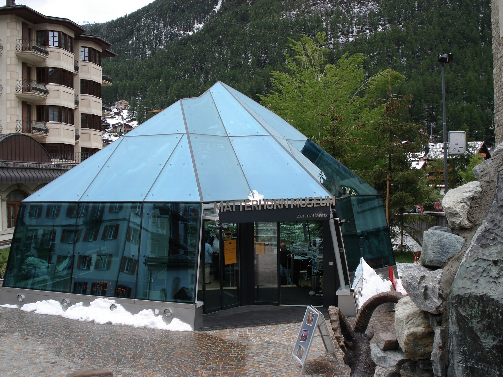 The entry of the Matterhorn museum in the center of Zermatt